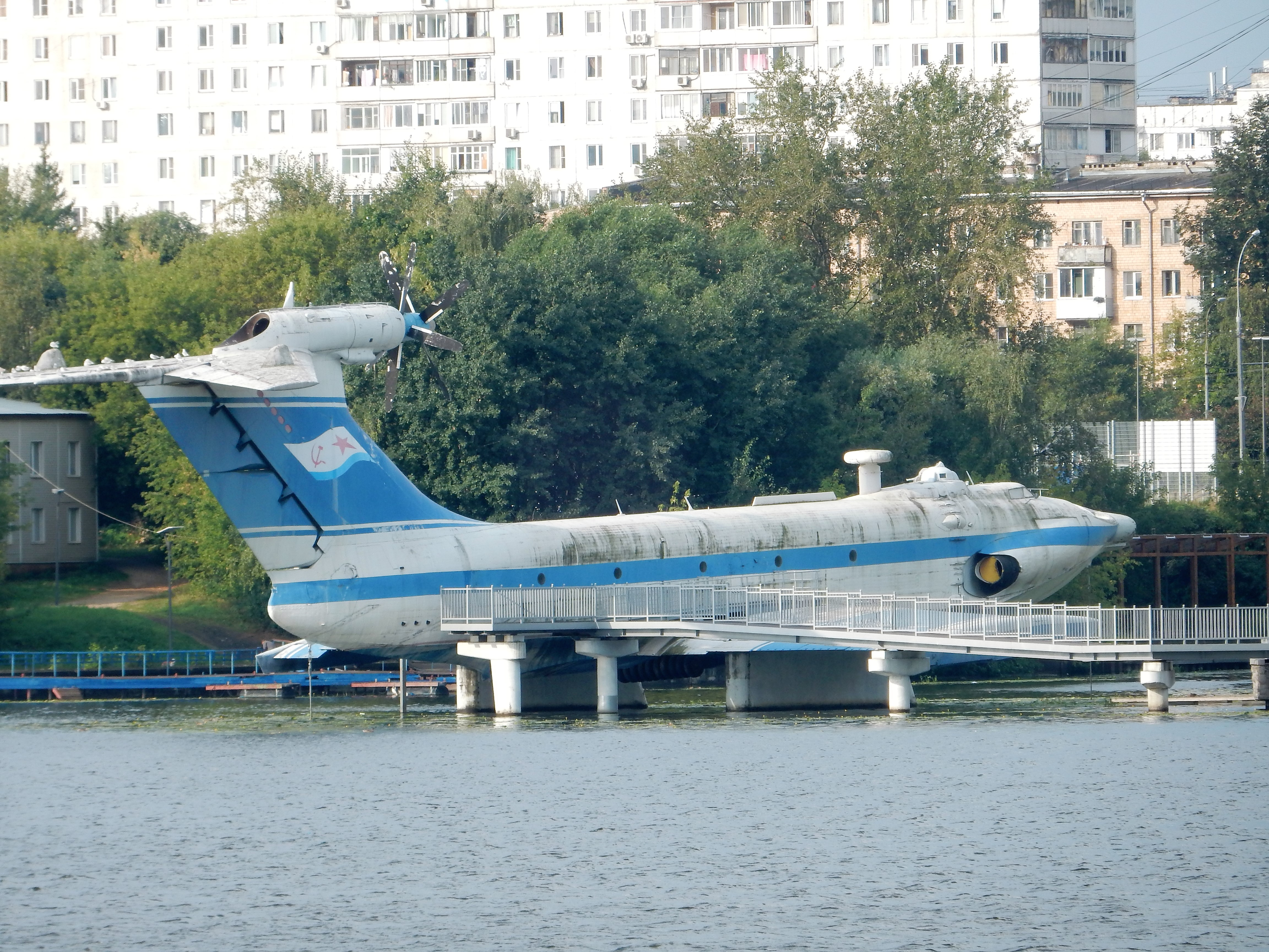 Ekranoplan A-90 im Museum der Russischen Marine in Moskau